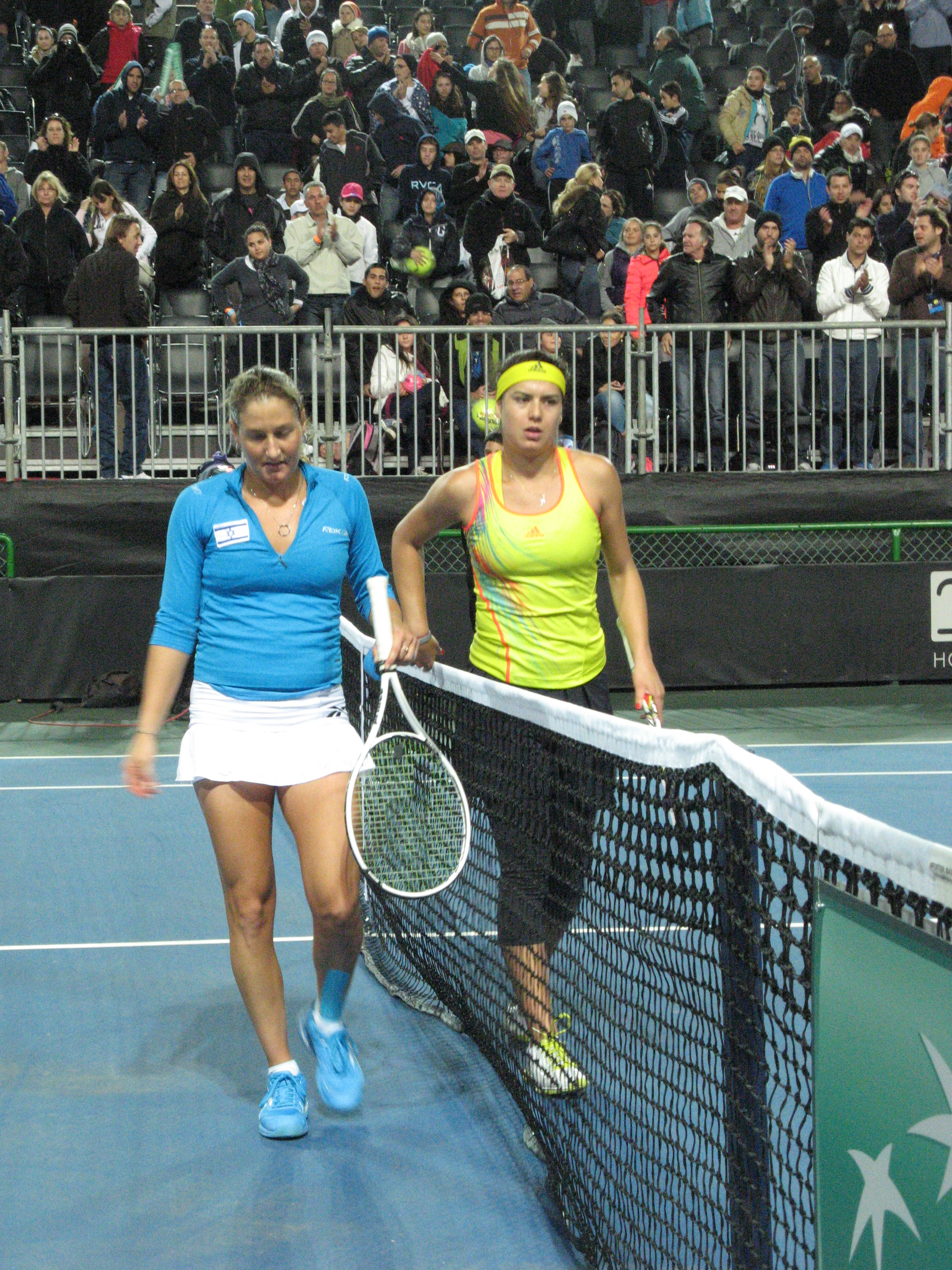 The tennis players Shahar Pe'er of Israel and Sorana Cîrstea of Romania in the end of their match in the 2nd day of Fed Cup Group I 2013 Europe/ Africa in Eilat, Israel